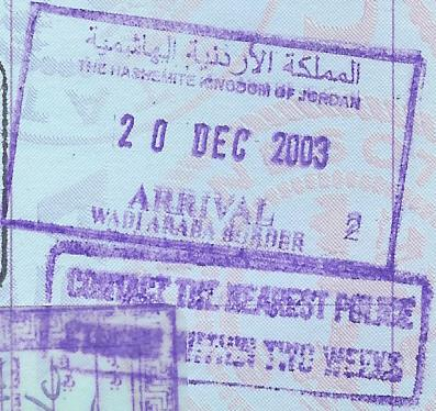 Entry stamp to The Hashemite Kingdom of Jordan. Granted at the Wadi Araba entry point from Eilat, Israel.